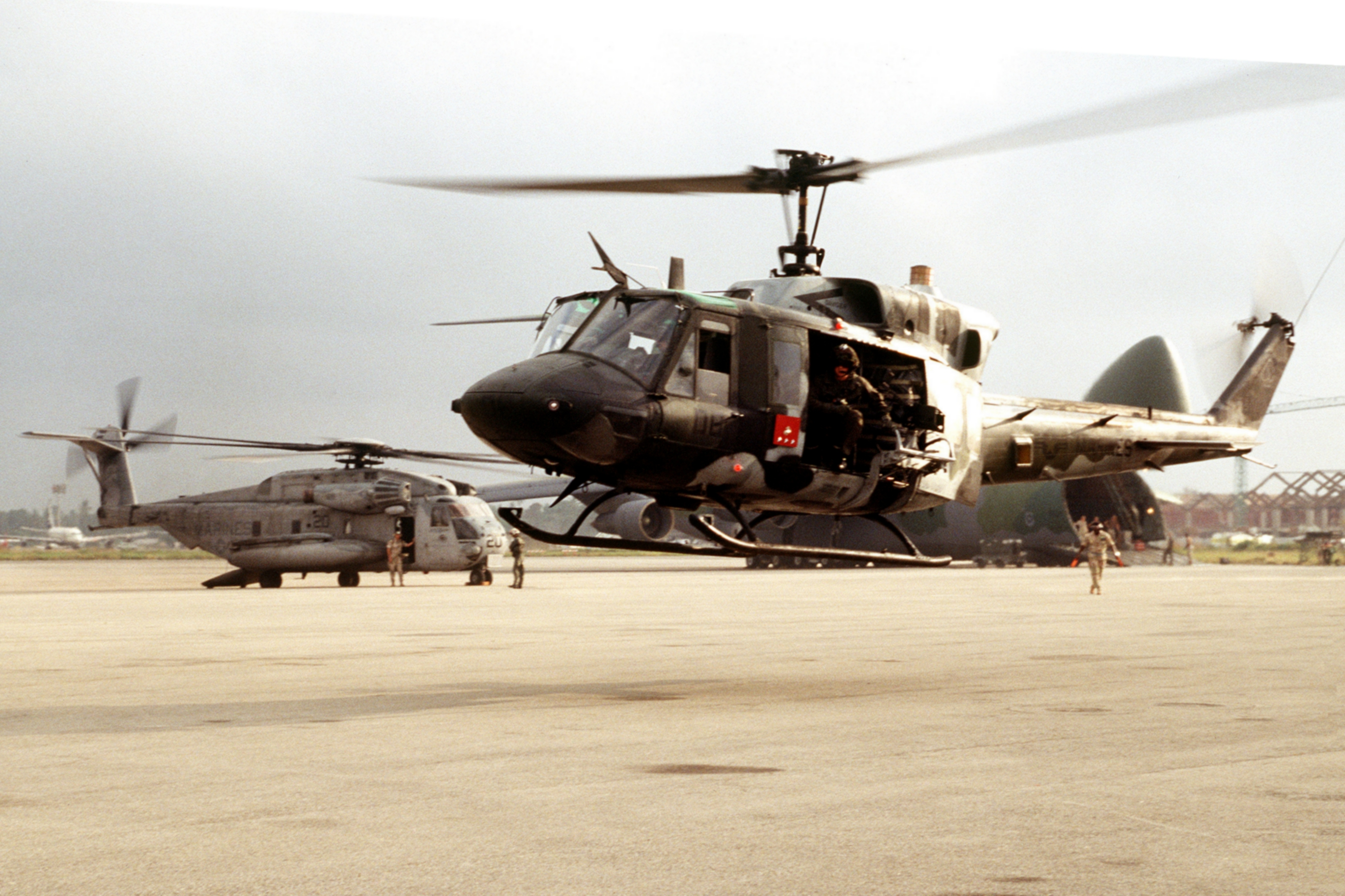 A U.S. Marine Corps Bell UH-1N Twin Huey helicopter lifts off from the ramp at Moi International Airport, Mombasa (Kenya). The helicopter was ferrying personnel and equipment to and from naval vessels off the coast of Africa. U.S. forces were bringing in personnel, material and equipment to support the withdrawal of United Nations peacekeeping forces (UNOSOM II) from Mogadishu, Somalia. Note: The red plaque with the three stars normally shows that this helicopter was transporting a 3-star general.